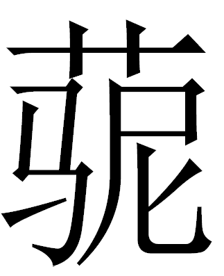 Manipulating components derived from the SimSun font, I recreated a common graphic found on the Chinese internet of a character containing a grass radical/草字頭, and the phonetics ni and ma, as an allusion to the Grass-mud Horse.